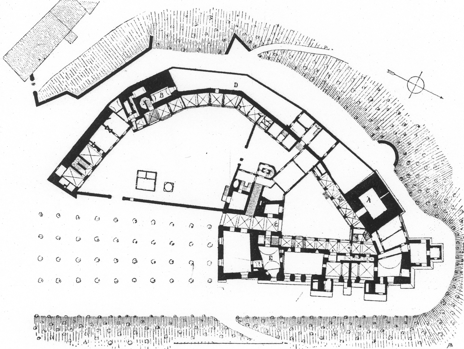 Floor plan of the Schwanenburg in Cleves